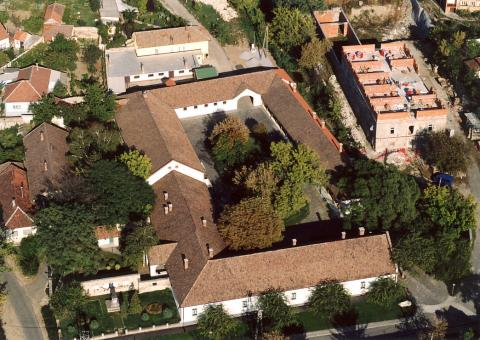 Mezőzombor, Hungary, aerialphotography